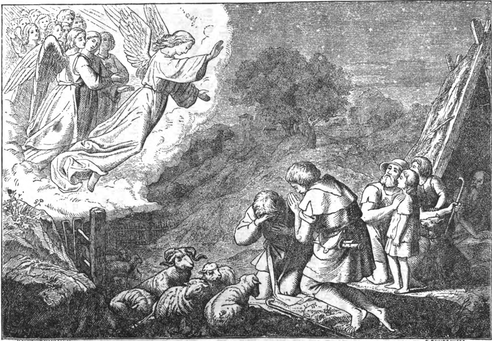 The angels tells the shepherd that Jesus is born.